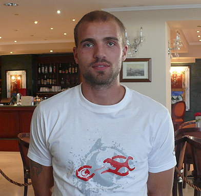 Gardar Gunnlaugsson seen here in Thessaloniki on 18th august 2008